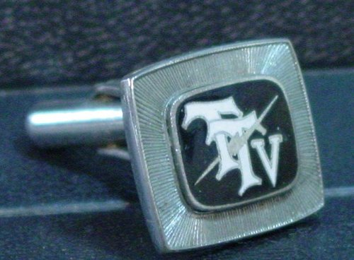 A cufflink for senior executives of Taiwan Television Enterprise, Ltd. (TTV)